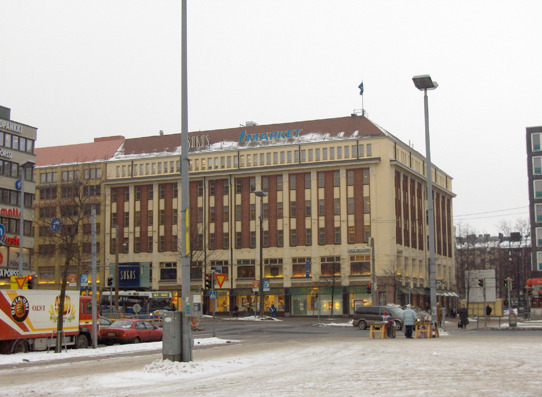 Department store Sokos Hakaniemi, Helsinki, Finland.